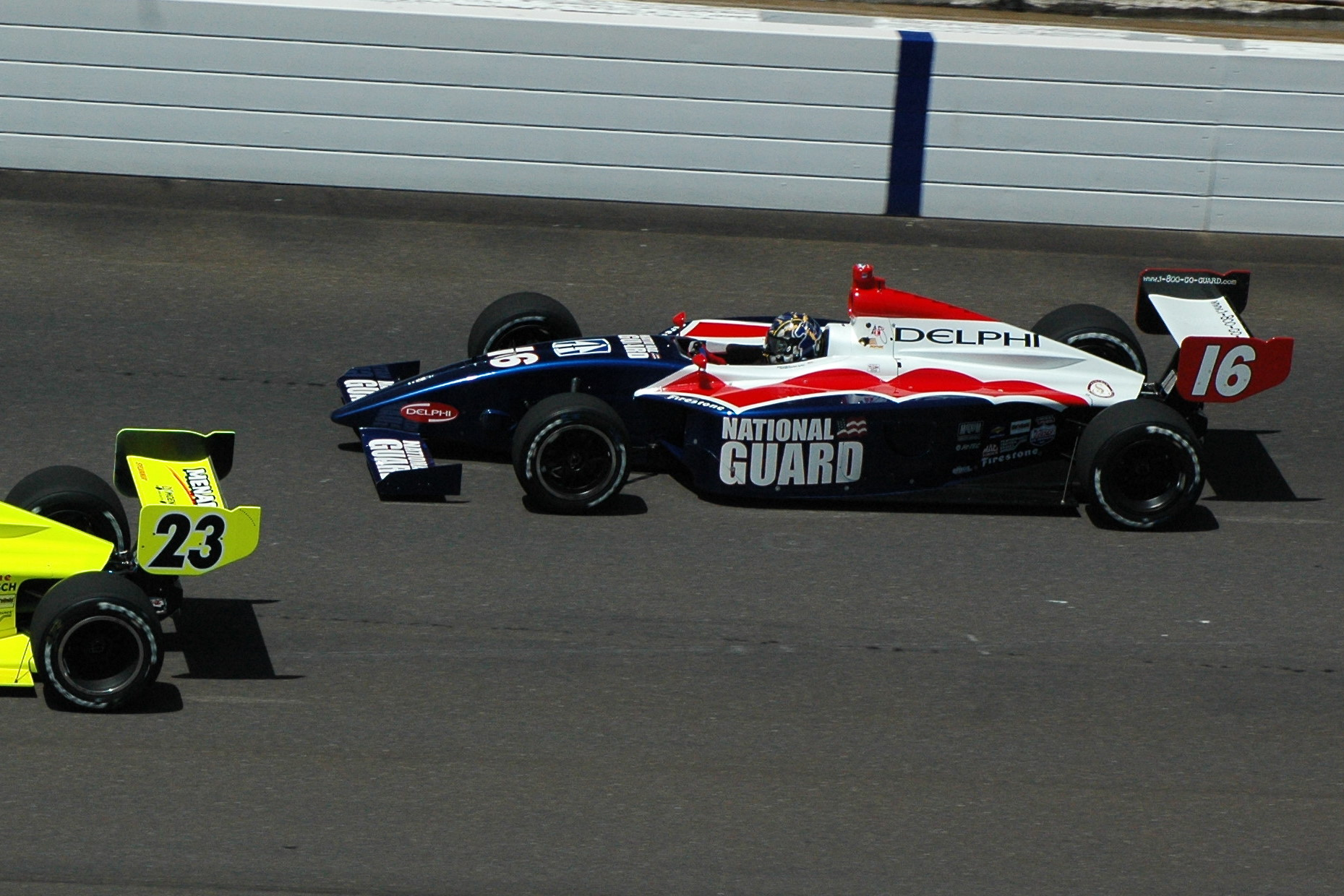 Brent Sherman racing in the 2008 Firestone Freedom 100 Indy Lights race